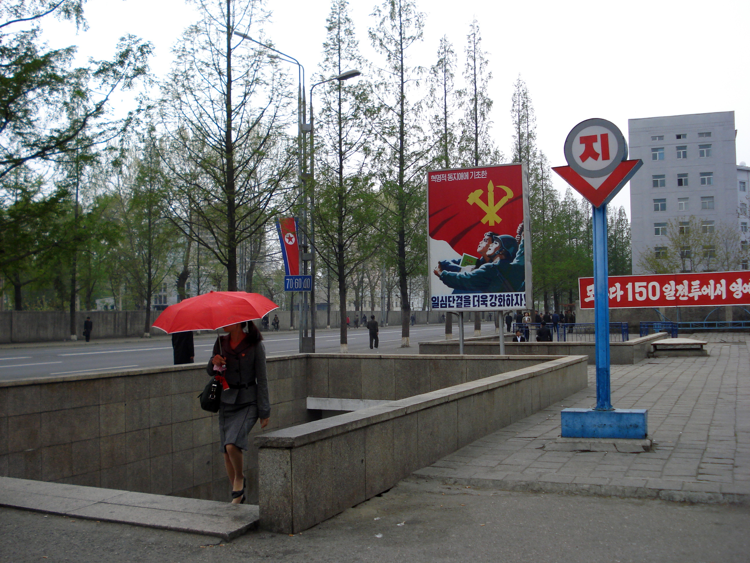 Pyongyang metro (Yonggwang station)